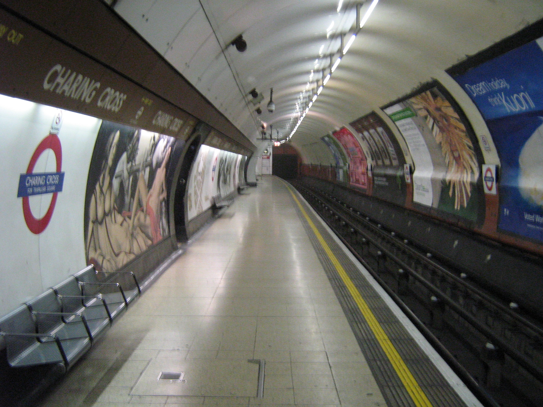 charing cross station